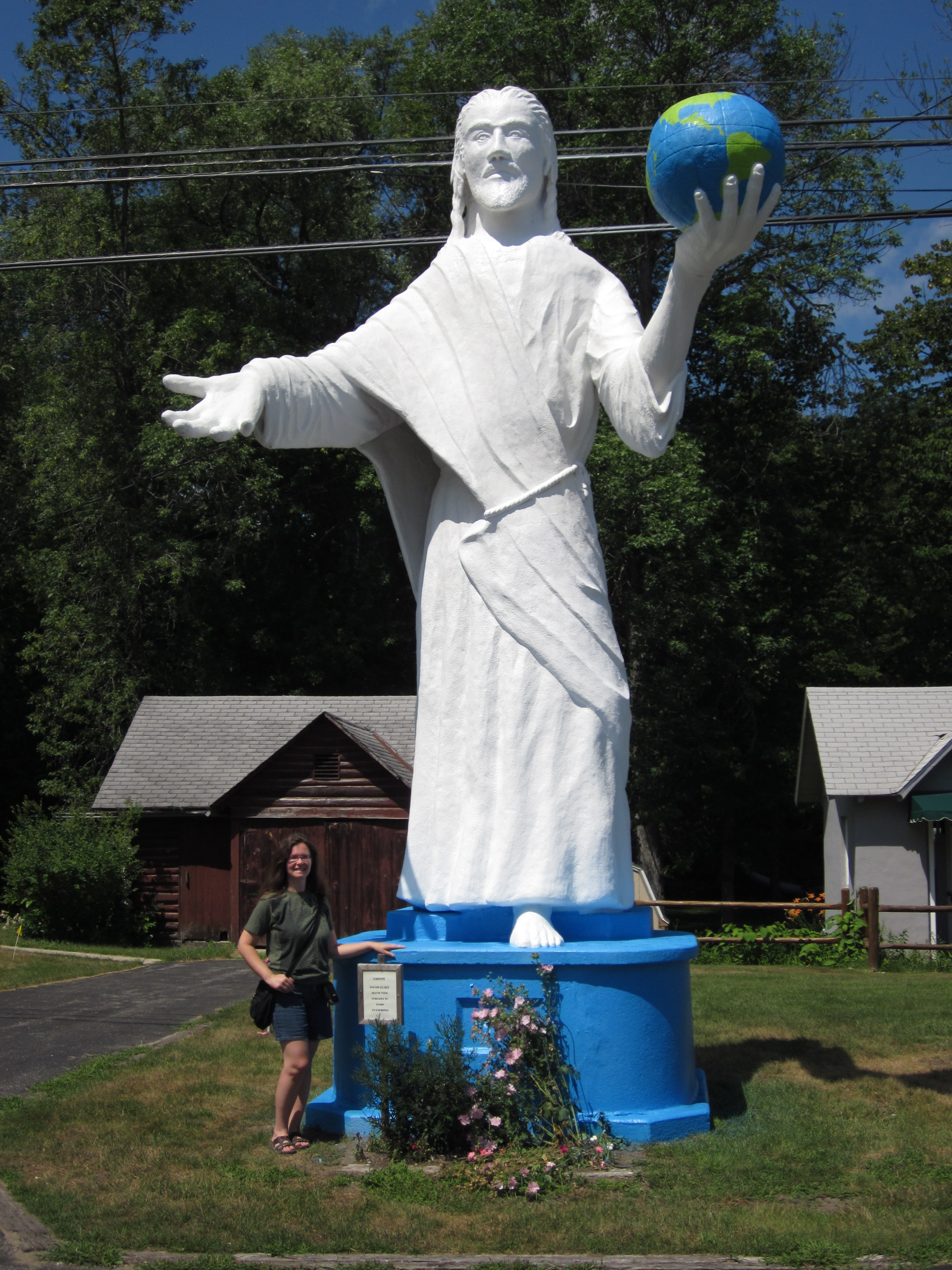 Jesus (1957) sculpted by Paul Domke and located in front of his Prehistorical Gardens.